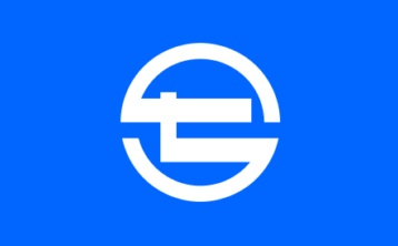 Flag of Shichigahama Miyagi